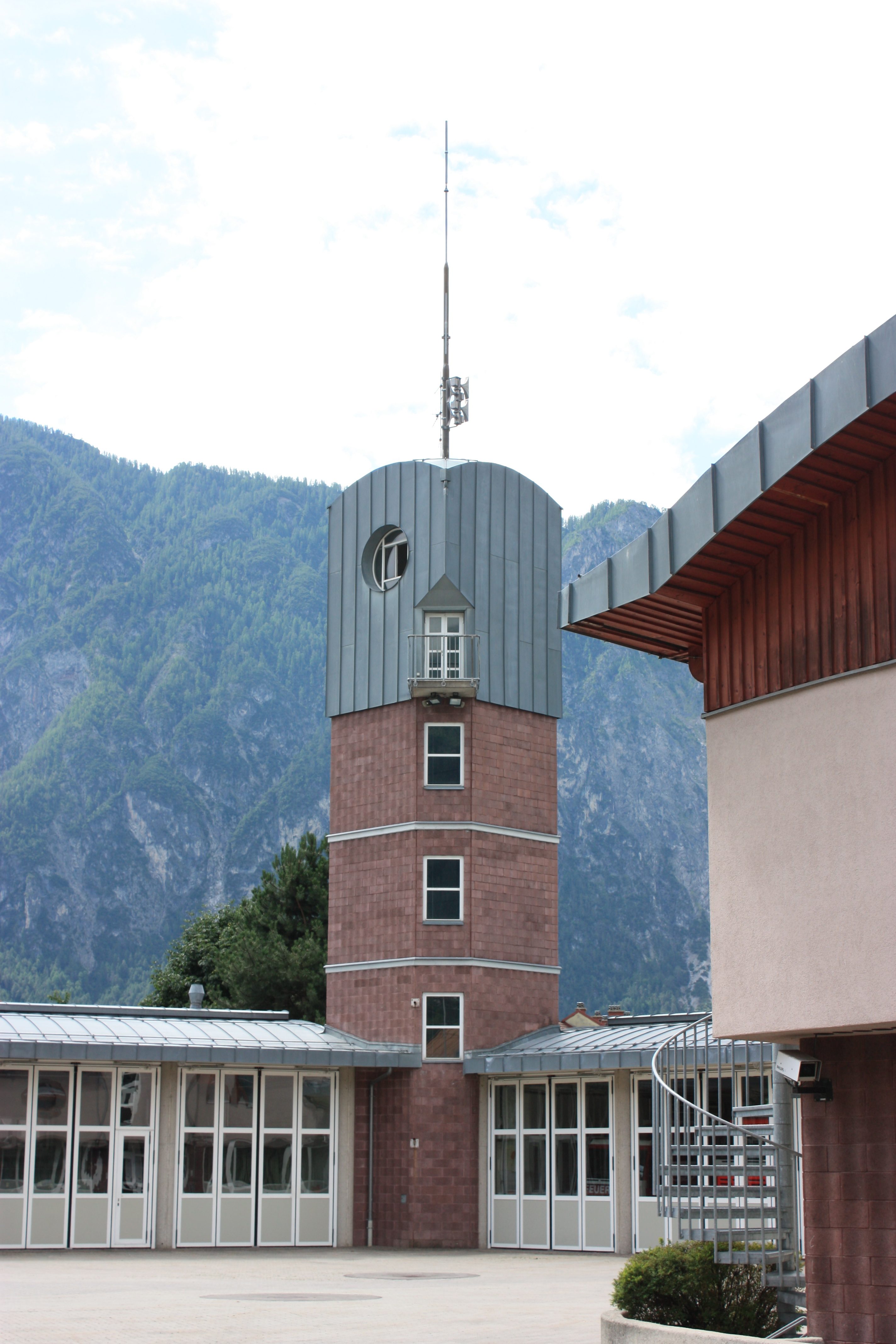 Tower of the fire department Locality:Dolomitenstraße Community:Lienz